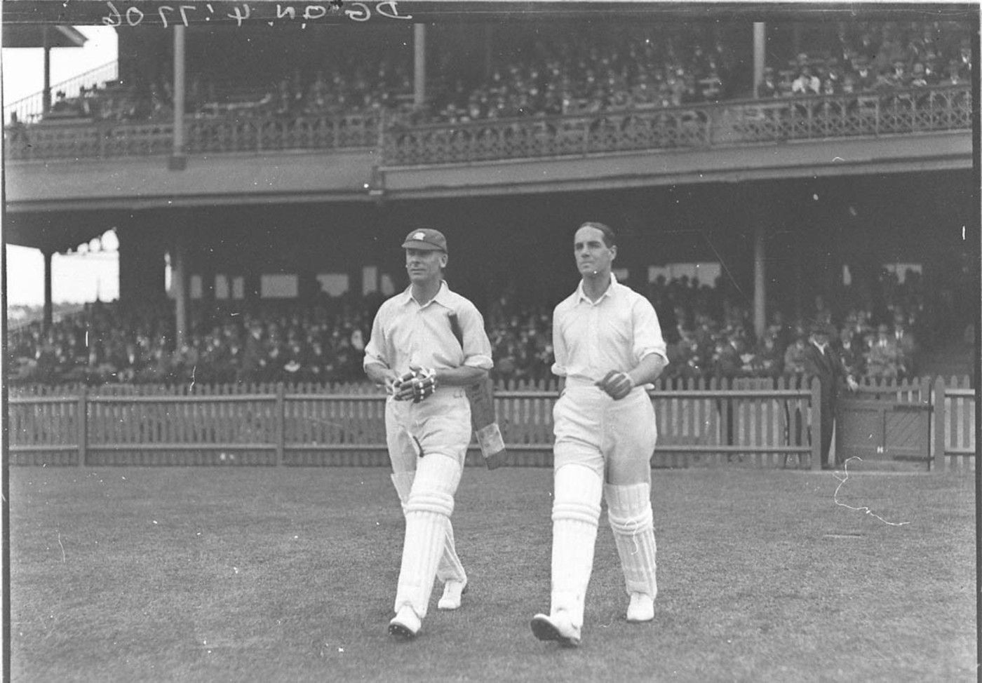 England v Australia Test match; England opening bats Jack Hobbs and Sutcliffe